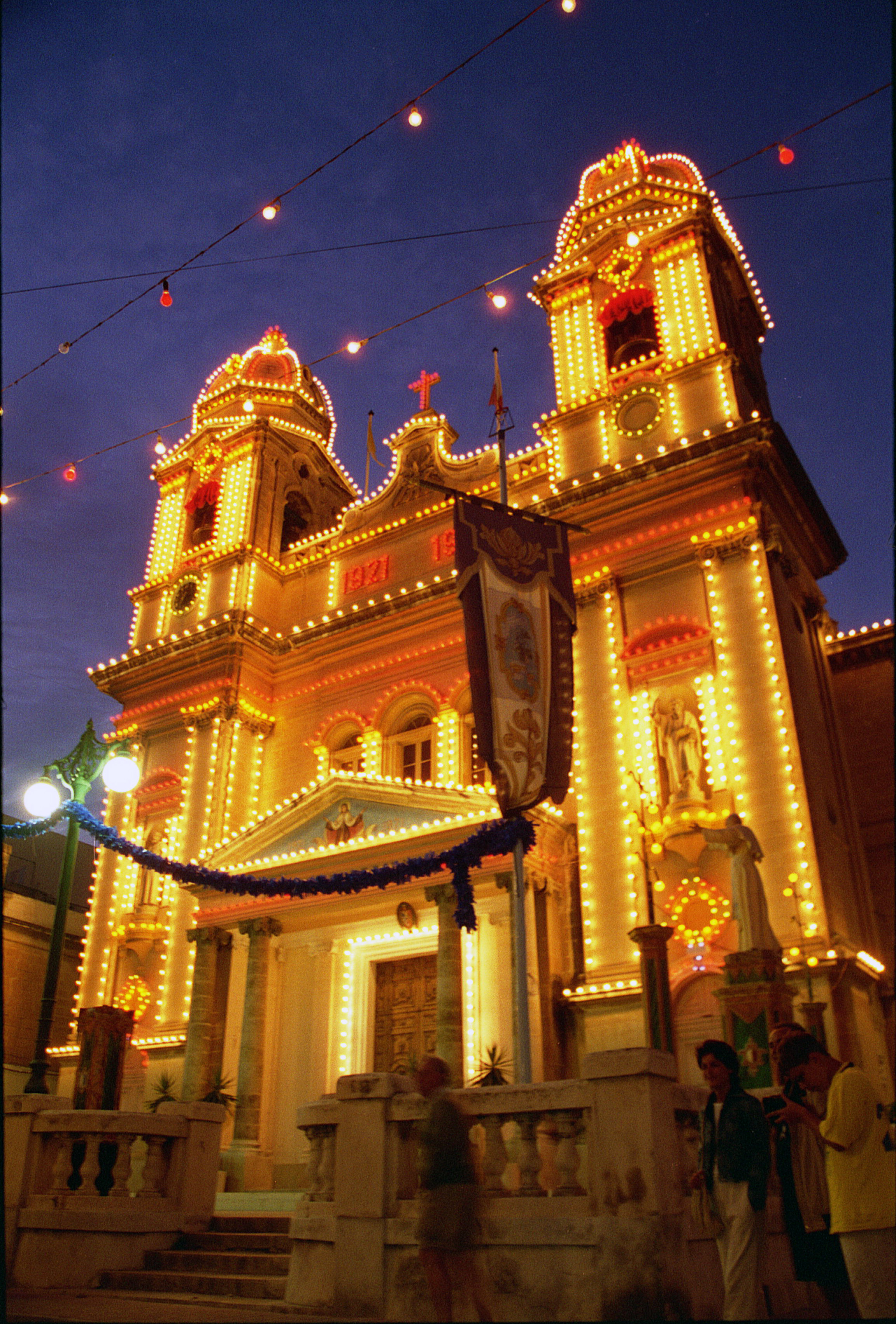 Our Lady of Mount Carmel Church (Gżira).